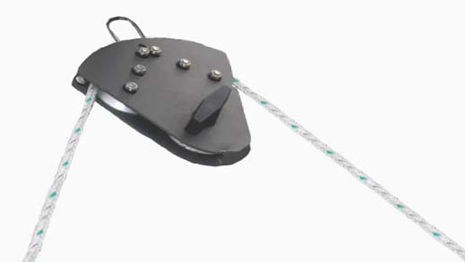 Editor's photo of a boom brake Editor's photo of a boom brake